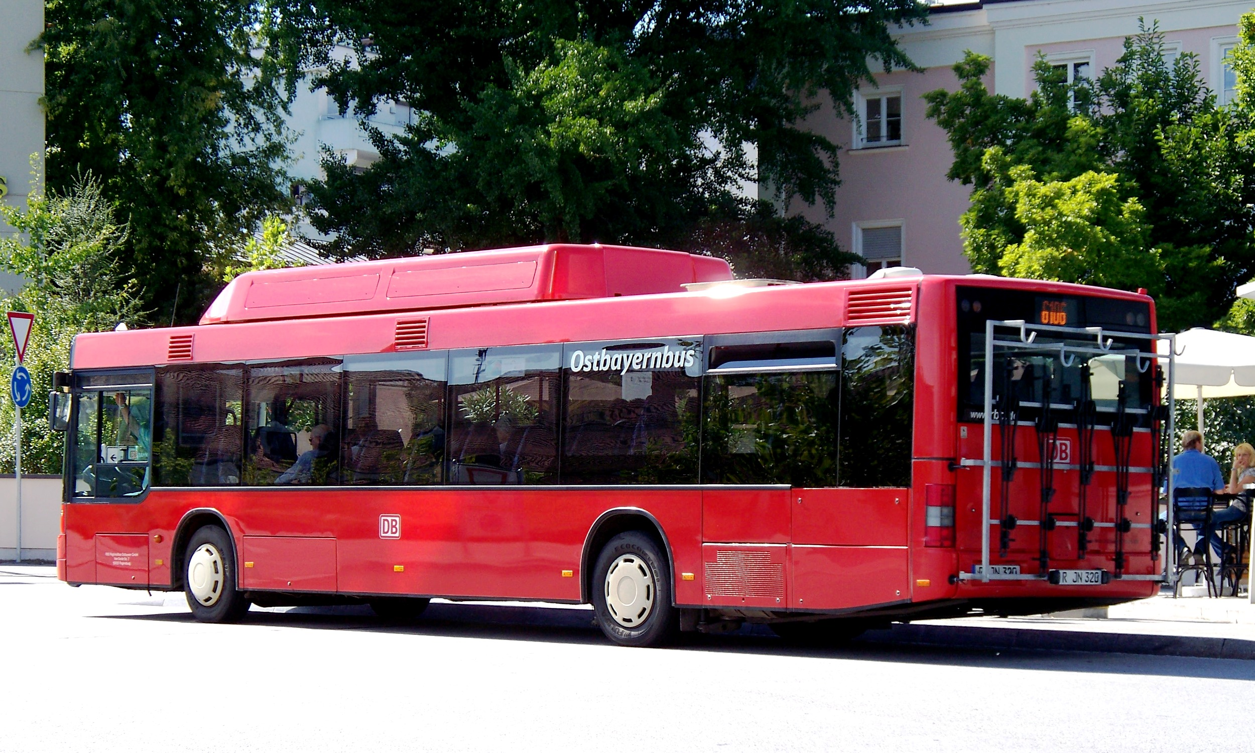 Red MAN NÜ 313 CNG bus in Passau, Germany. Built 2002, Regionalbus Ostbayernbus operator.